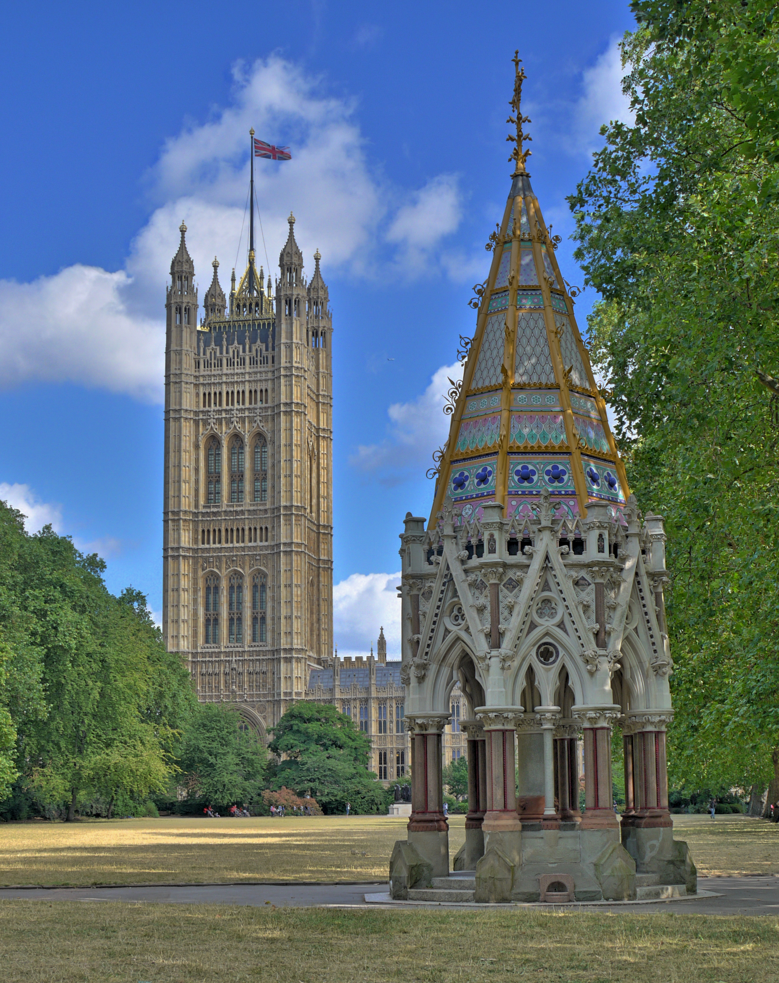 The Buxton Memorial and Victoria Tower, in Victoria Tower Gardens, Westminster. This is an HDR image formed from 3 photos taken with a Panasonic DMC-G1 camera and combined with HDR Darkroom software.